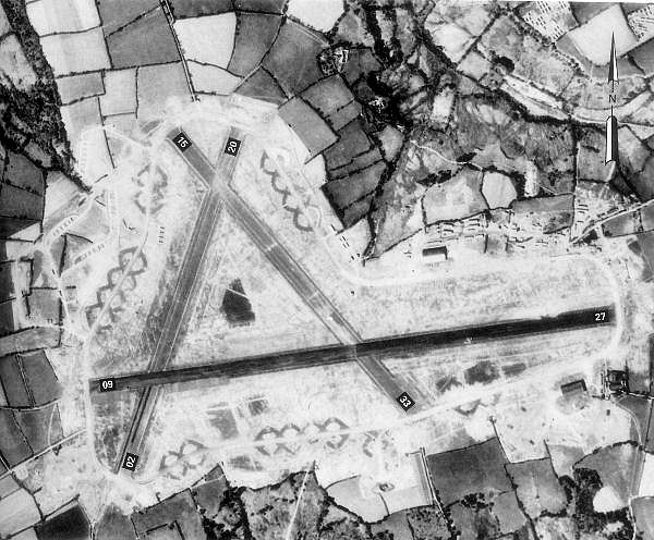 Aerial photograph of Upottery Airfield, England.